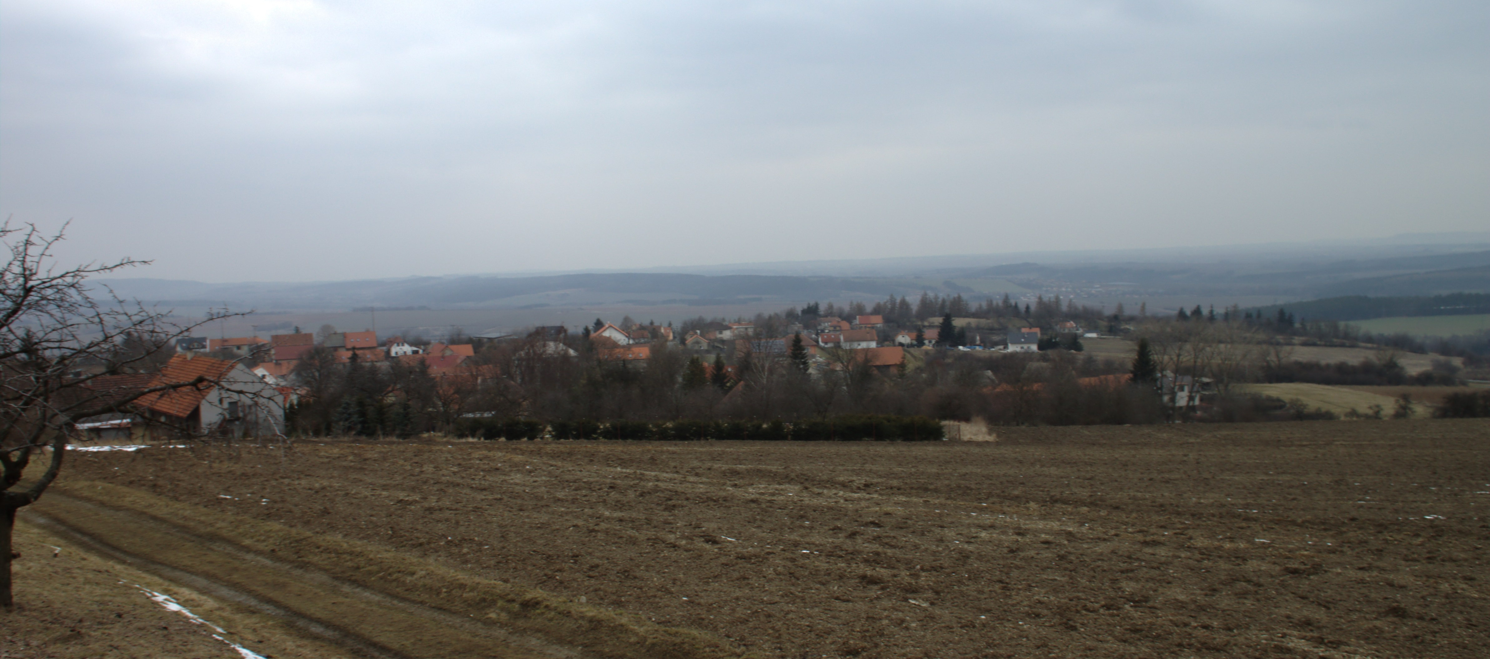 View of the town of Příčina in Rakovník District, Central Bohemian Region, CZ